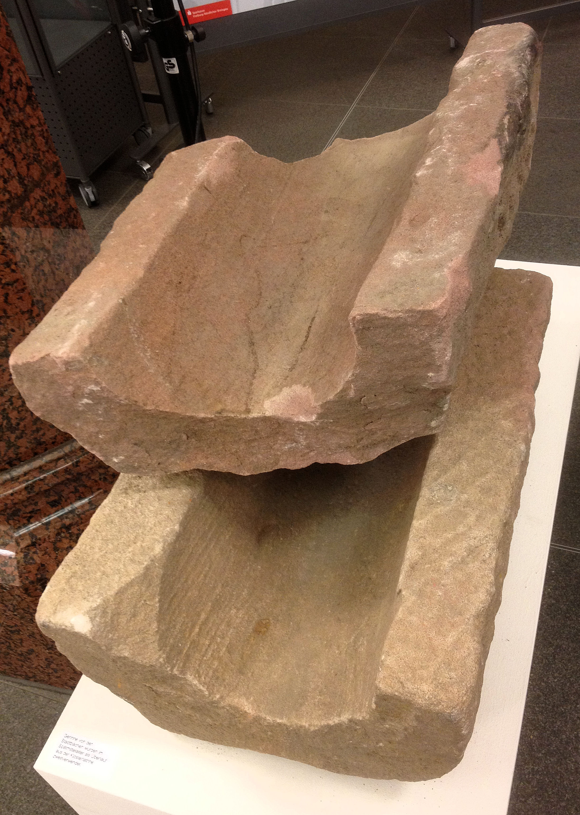 Groove of a Freiburger Bächle made from red sandstone. Recycled in the late middle ages as a level drain for a latrine in the Freiburg Dominican monastery